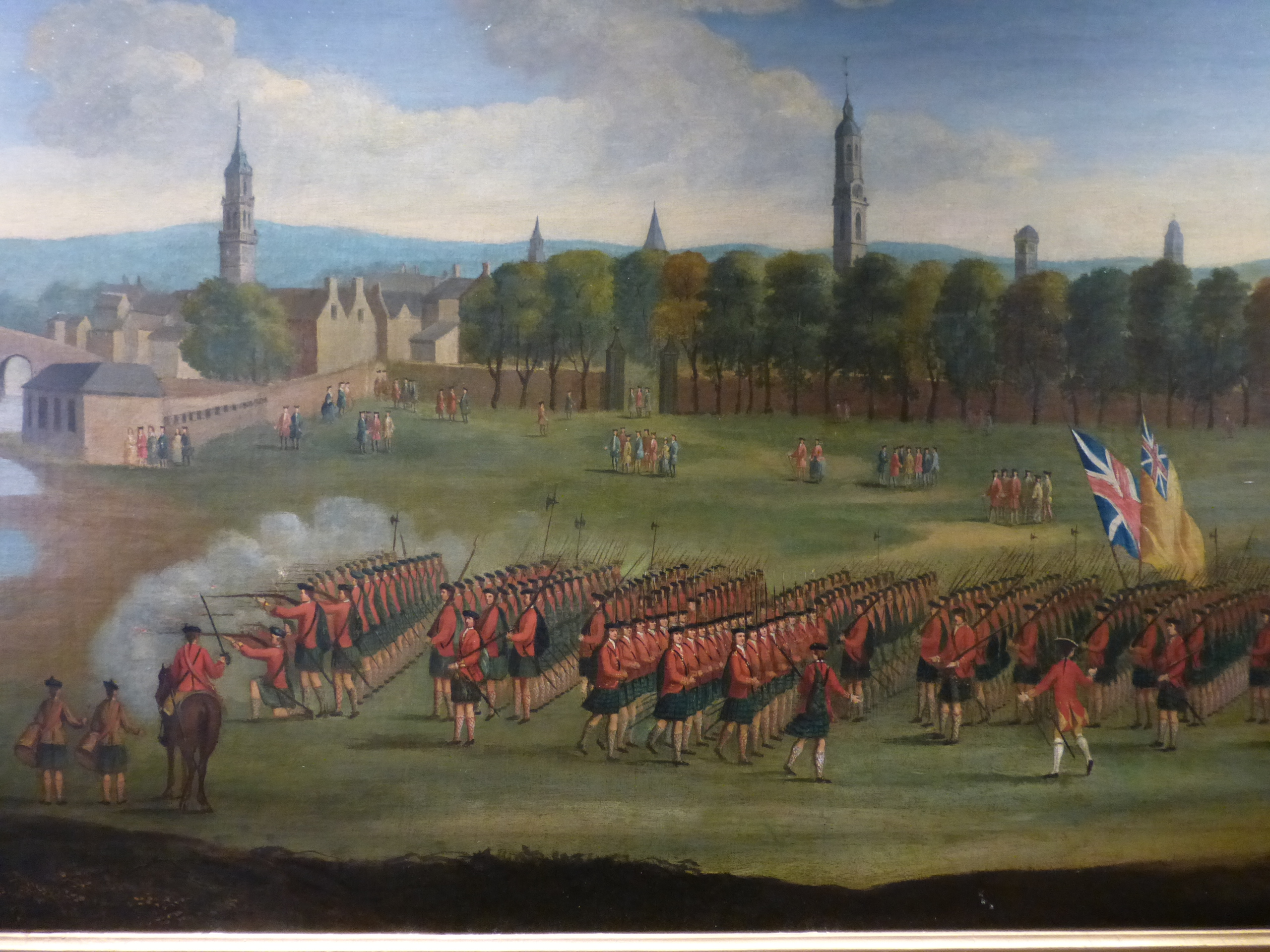 Detail from a painting showing a battalion of Black Watch recruits raised for service in North America being reviewed. It hangs in the regimental museum at Balhousie Castle in Perth. This section shows a musket volley being fired from the front of the column. The two most prominent spires are those of the Merchants' Hall (left) and St. Andrews Church (right).